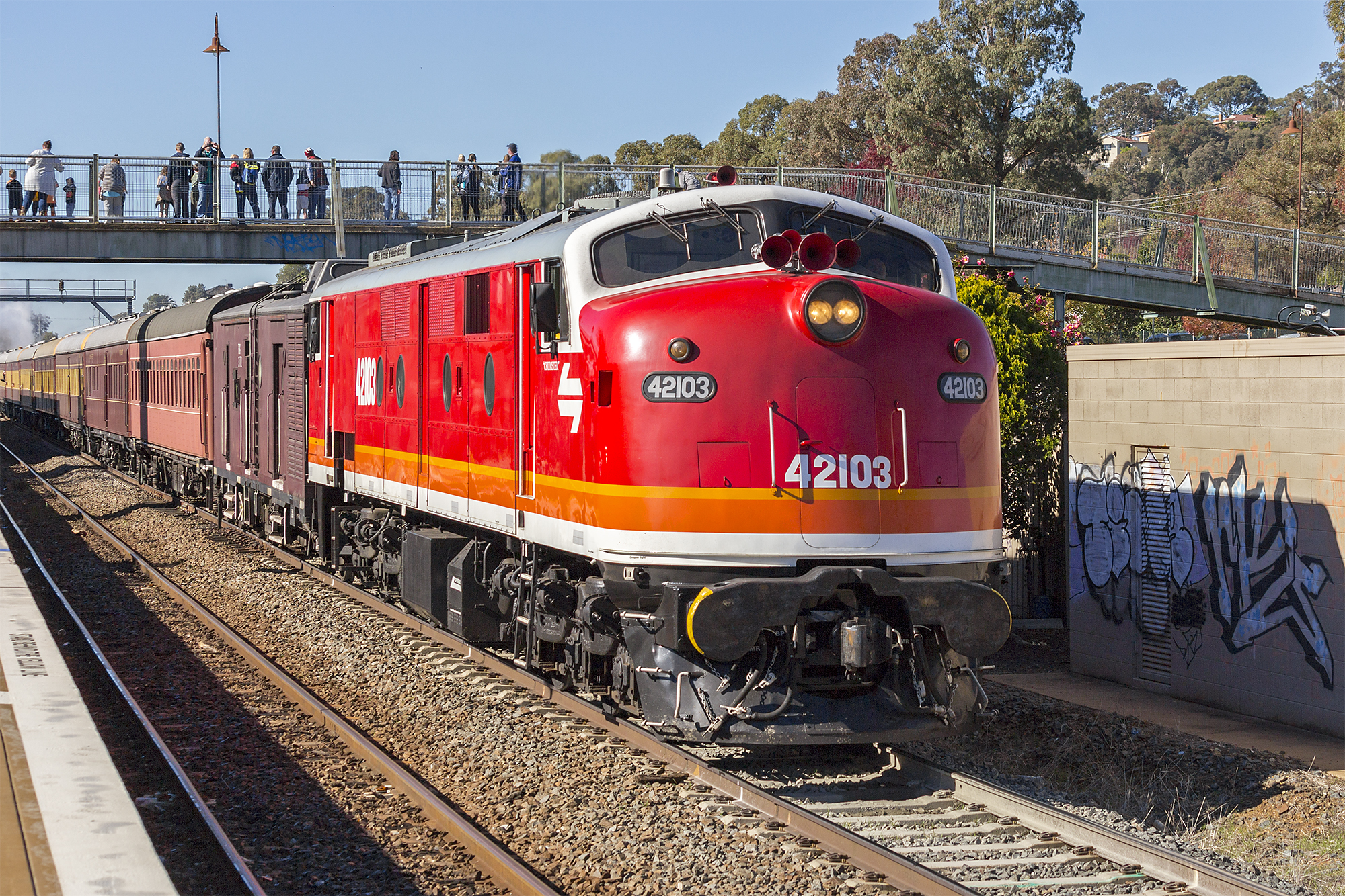 42103 passing Wagga Wagga railway station